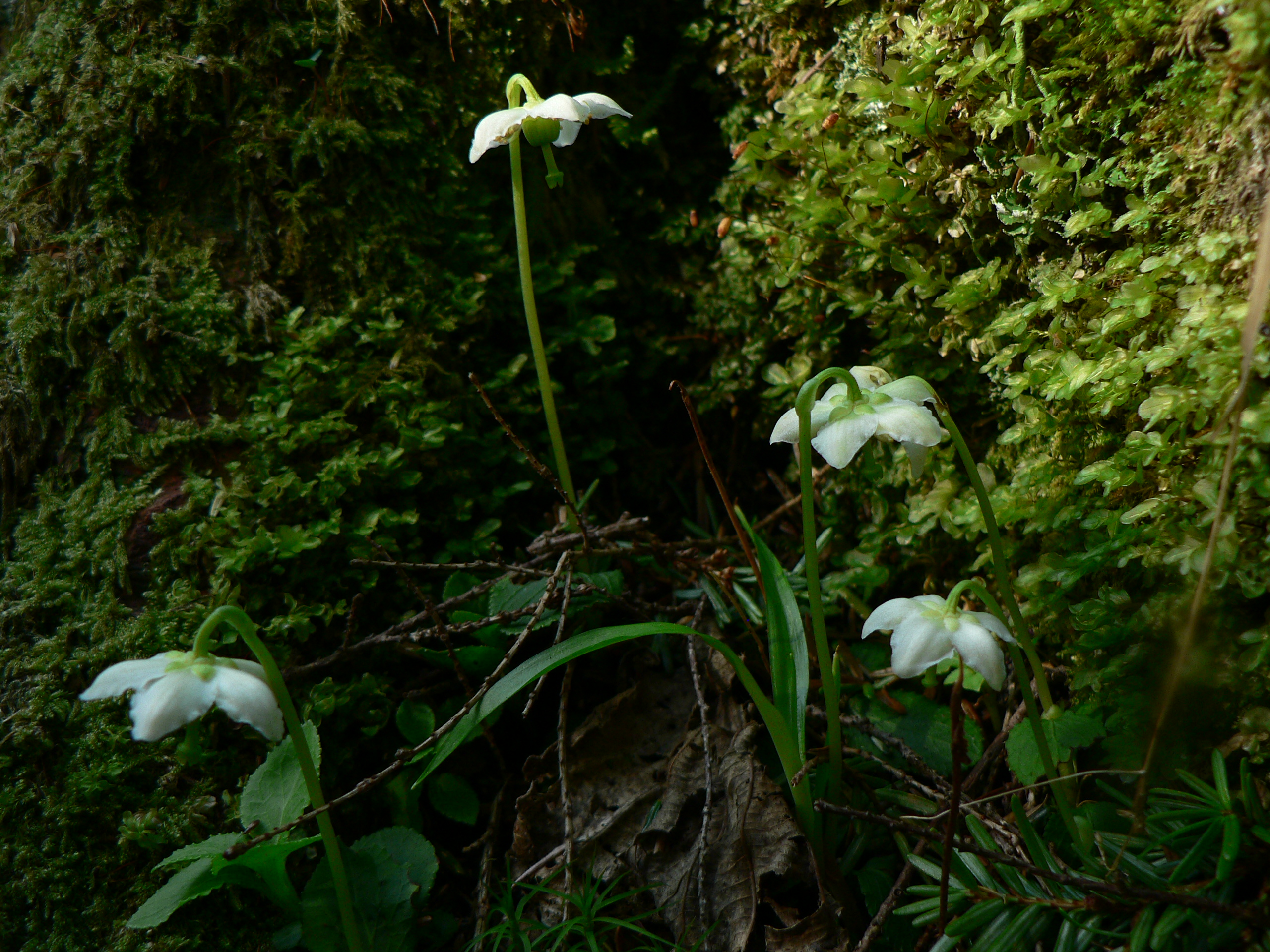 Single Delight